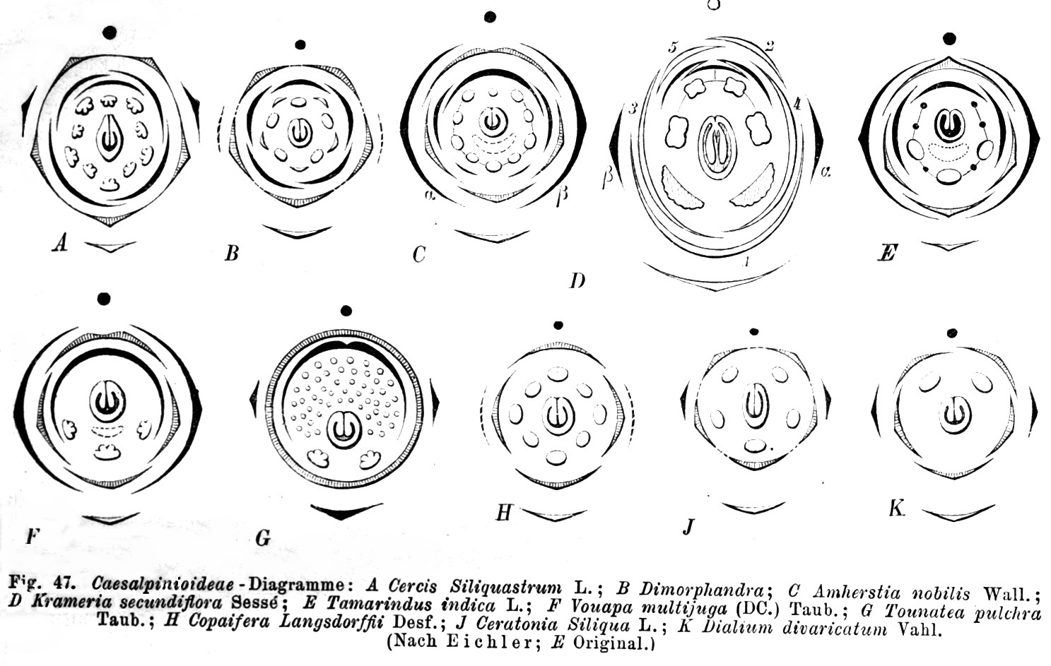 Illustration from book